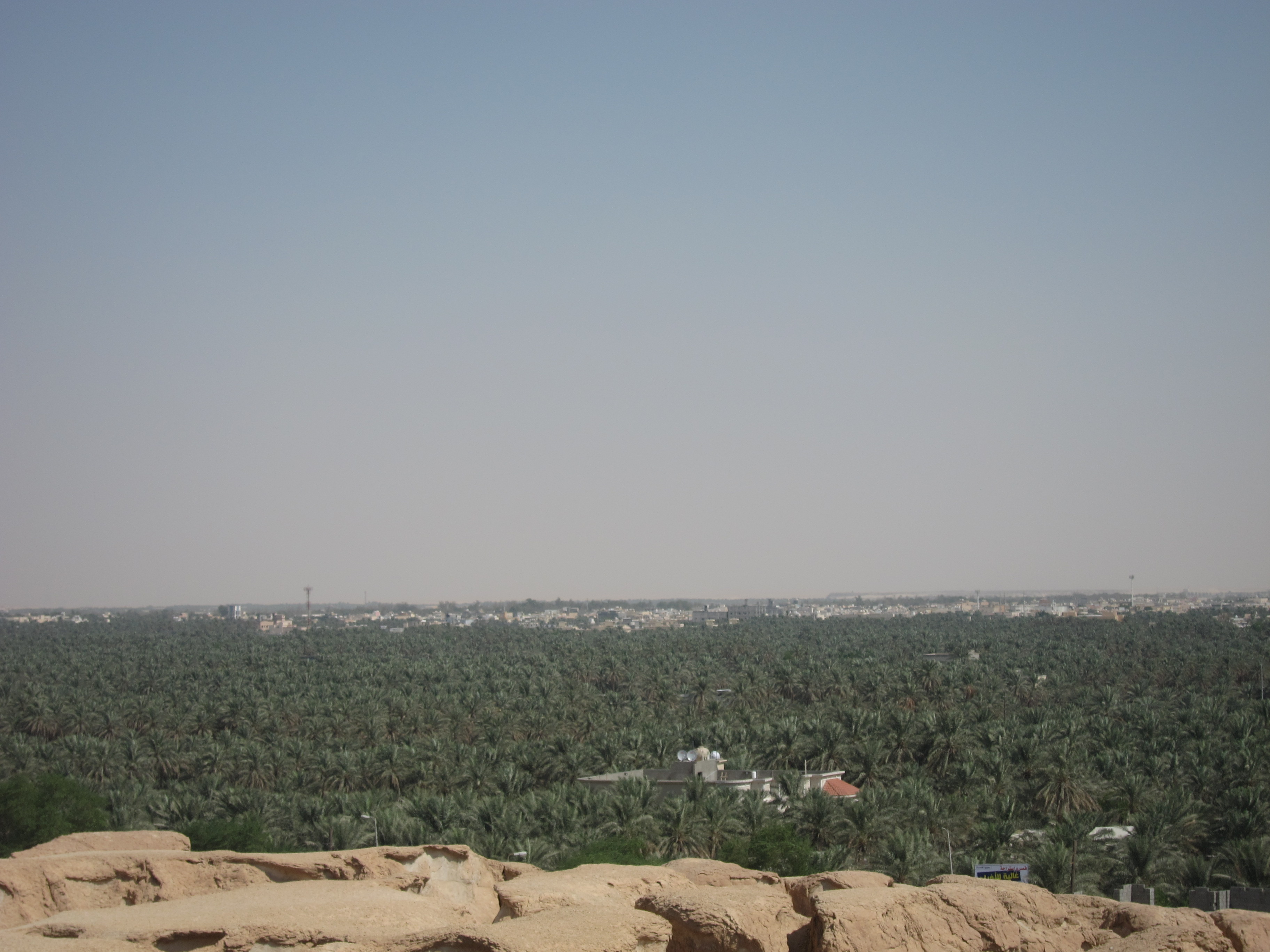 Jabal Al Qara Cave - Al Hassa, Saudi Arabia ജബൽ അൽ ഖാറ ഗുഹ, അൽ ഹസ, സൗദി അറേബ്യ വലിയൊരു മലയുടെ ഉള്ളിലേക്ക് കയറിപോകാവുന്നയവസ്ഥയിലാണ്... ഏതെങ്ങിലും ഒരു ദിശയിലേക്ക് ഗുഹപോലെ രൂപപ്പെട്ട ഒന്നല്ല... ഗുഹയുടെ ഉള്ളിൽ കൈ വഴികൾ പോലെ വളരെയധികം വഴികൾ രൂപപ്പെട്ടിട്ടുണ്ട്... അതിനാൽ തന്നെ ഗുഹയുടെ ഉള്ളിൽ മുഴുവനായും പോയികാണുക എളുപ്പമല്ല... പോകുന്ന വഴിയിൽ തന്നെ ചിലയിടങ്ങളിൽ, എവിടെയെങ്ങിലും അള്ളിപിടിച്ച് കയറിപോകുകയും ചിലപ്പോൾ ഊഴ്ന്നിറങ്ങിപോകേണ്ടിയും വരും... പ്രകാശവും ഇല്ലാത്തയവസ്ഥയാണ്... ചിലയിടങ്ങളിൽ മുകളിൽ നിന്ന് ഭൂമി പിളർന്ന് ചെറിയ ദ്വാരത്തിലൂടെ സൂര്യപ്രകാശവും ഗുഹയിലേക്കെത്തുന്നുണ്ട്... ഗുഹയുടെ തുടക്കഭാഗങ്ങളിൽ ലൈറ്റുകളും ഘടിപ്പിച്ചിട്ടുണ്ട്... ഈ മലയുടെ ഓരോ ഭാഗവും പ്രകൃതിയുടെ വികൃതിയാണ്...